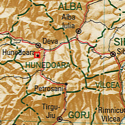 Map of Hunedoara Municipality, Romania.